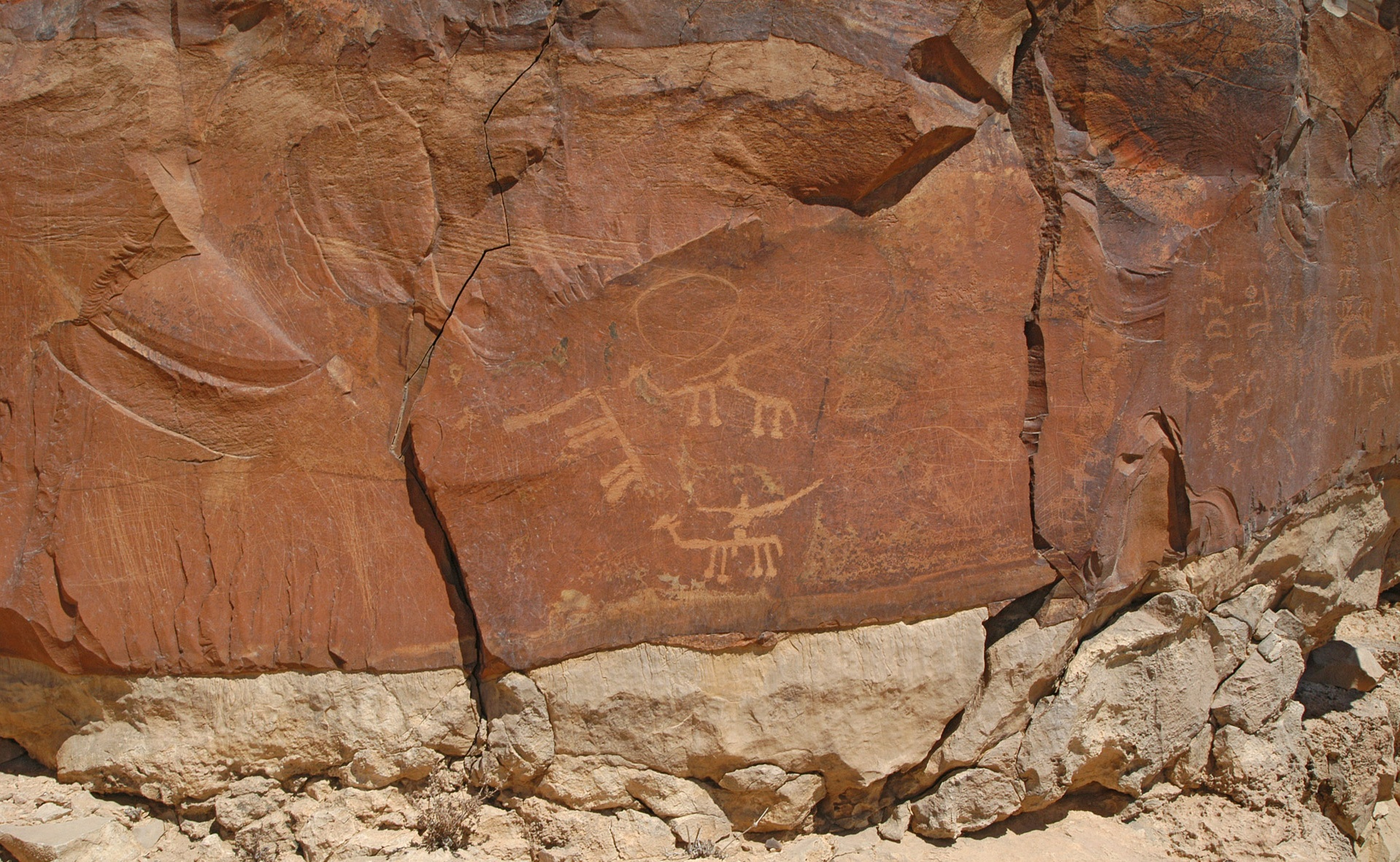 Prehistoric petroglyphs cover the dark rocks in many places across the higher Negev, in Israel. This image was taken at Nitzana.